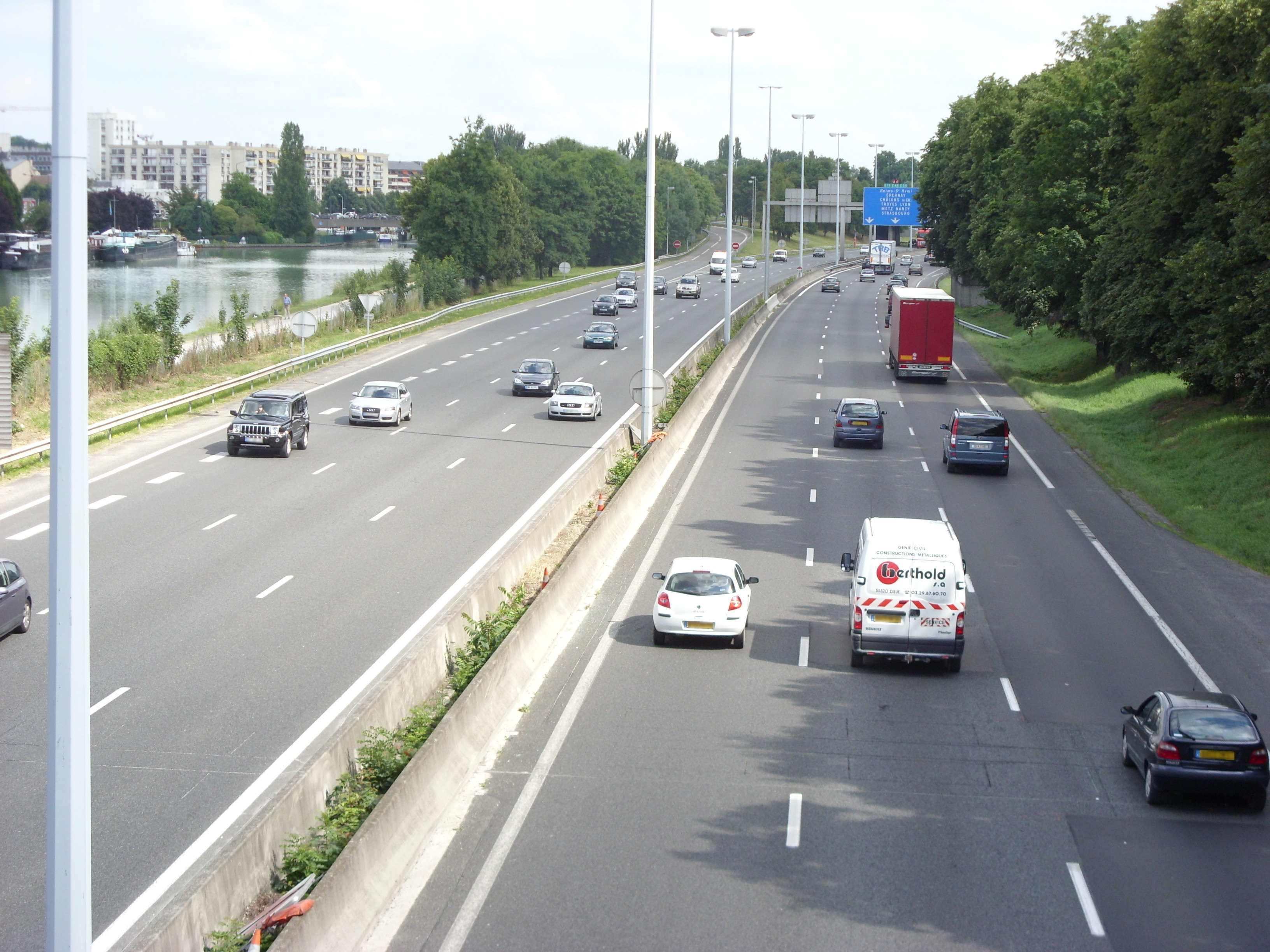 A4 French motorway through Reims.